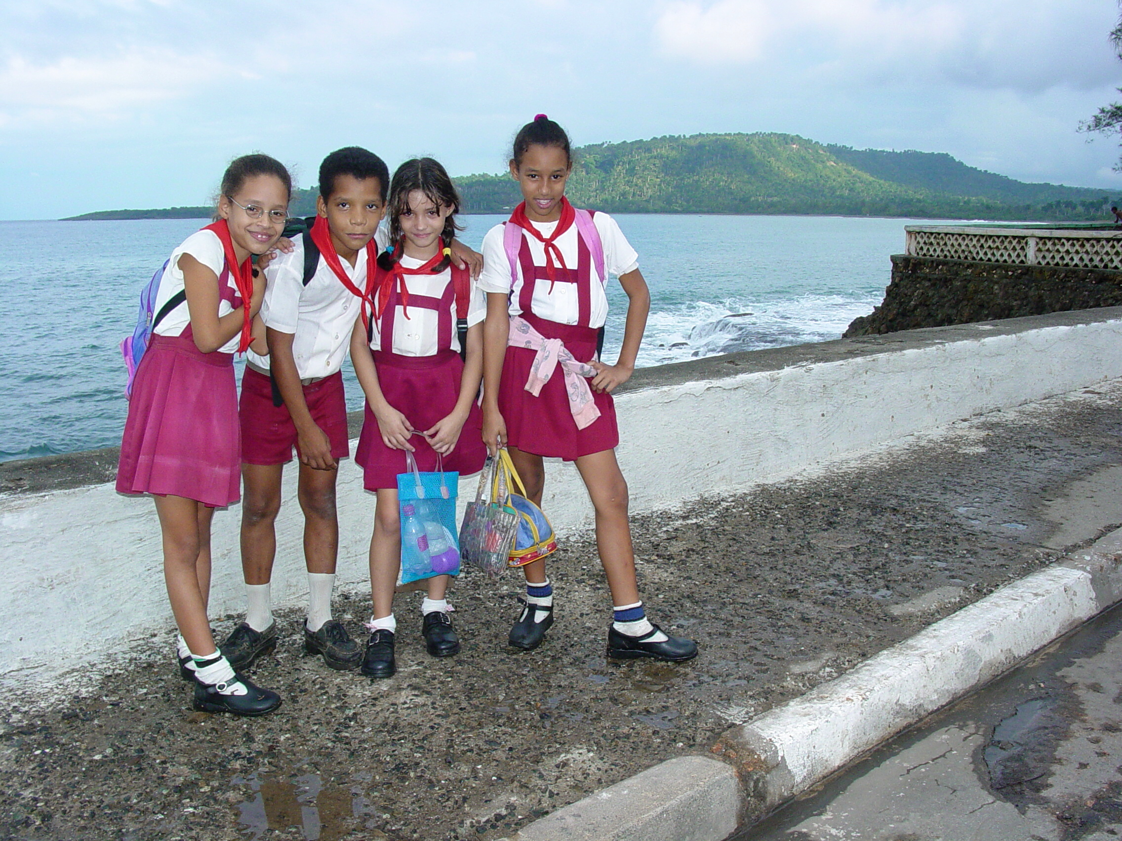 Kids in school uniform along the Malecón (seafront), Baracoa, Cuba. January 2003.